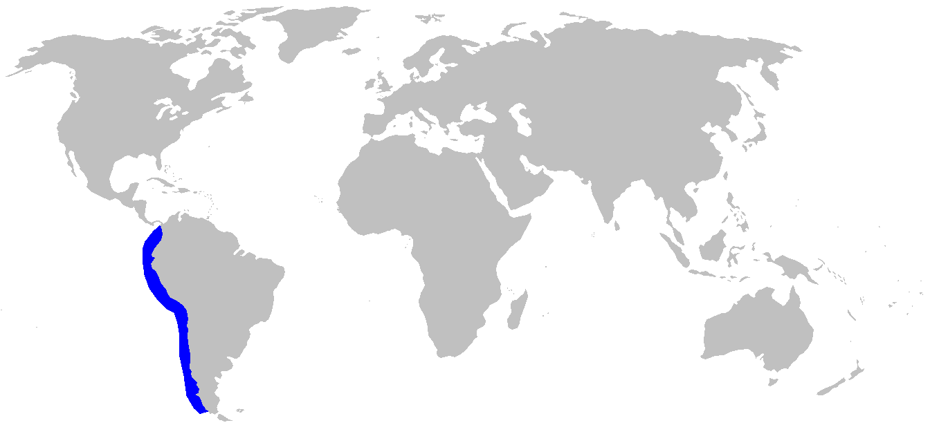 Distribution map for Squatina armata